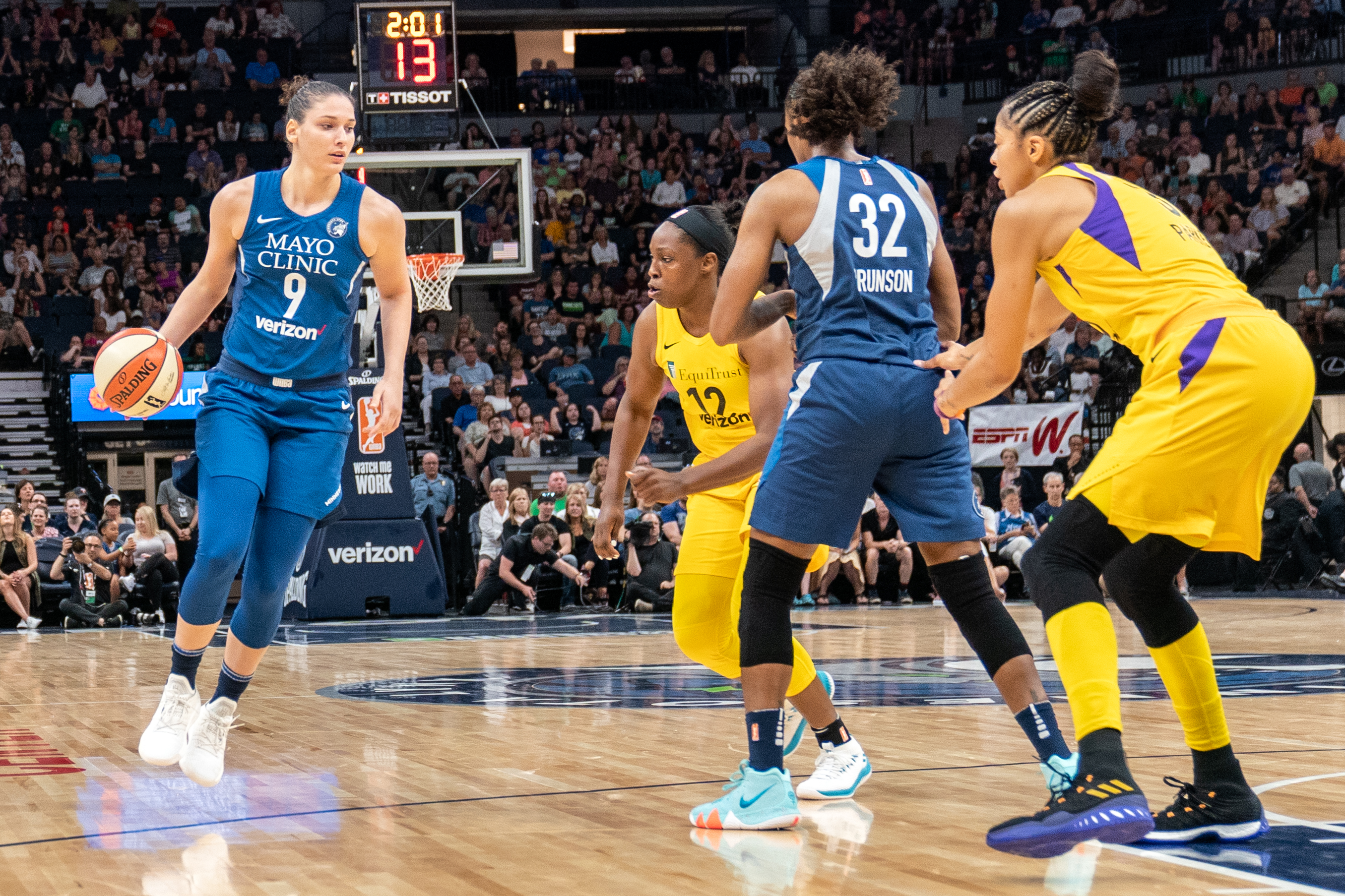 Cecilia Zandalasini handles the ball in the first quarter in the Minnesota Lynx vs Los Angeles Sparks game at Target Center, the Lynx won the game 83-72